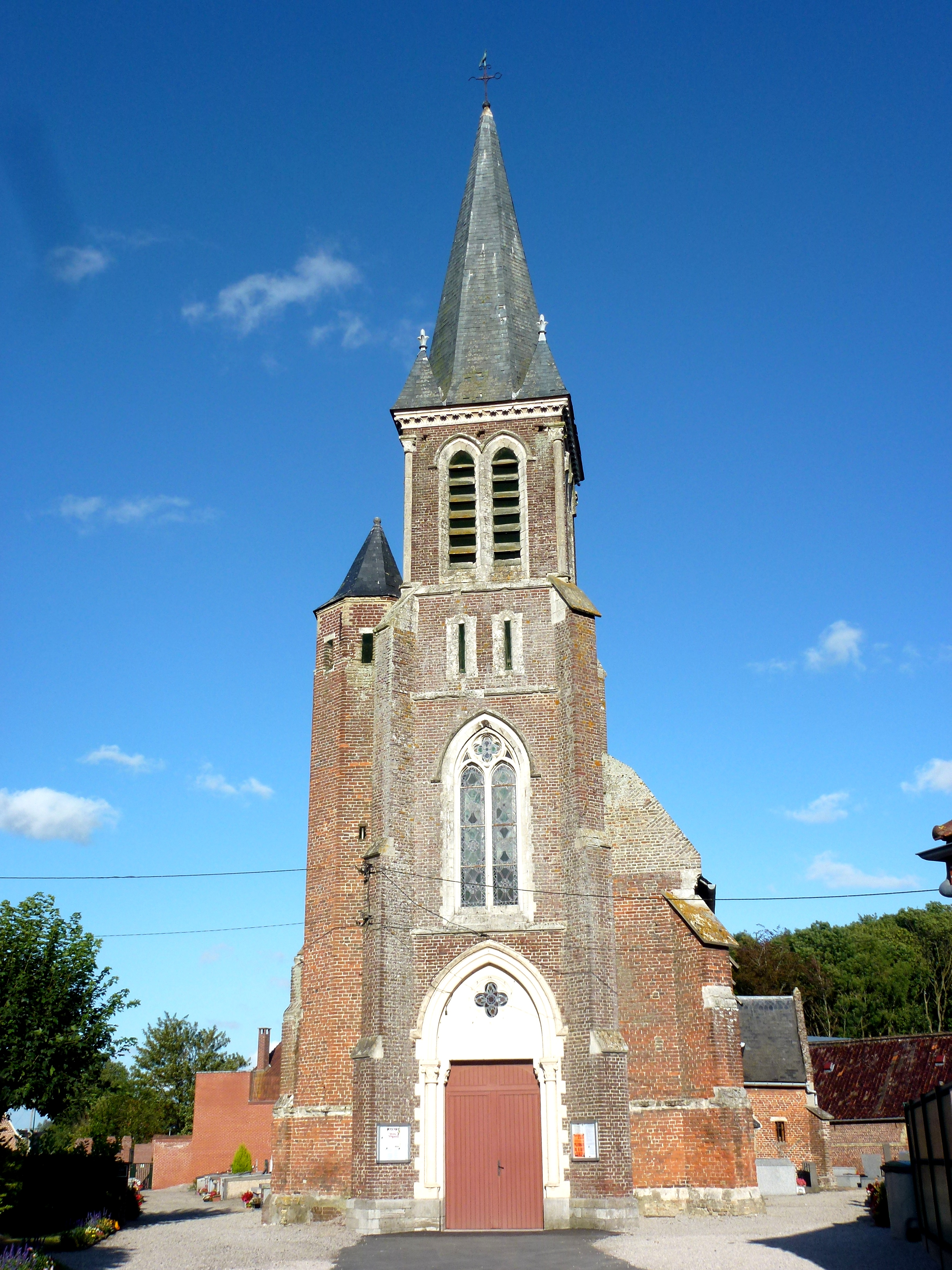 Wardrecques (Pas-de-Calais, Fr) Église Notre Dame